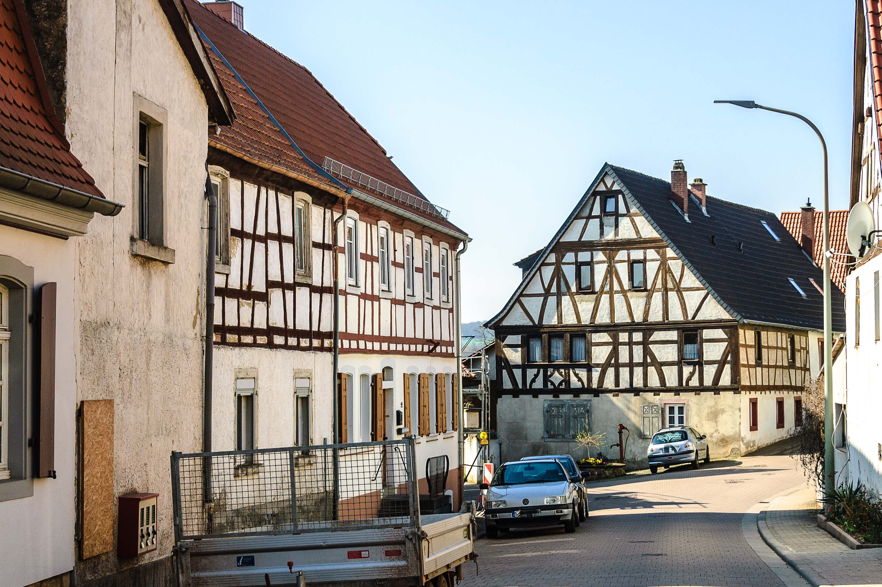 Rathausstraße 6 Dreisen